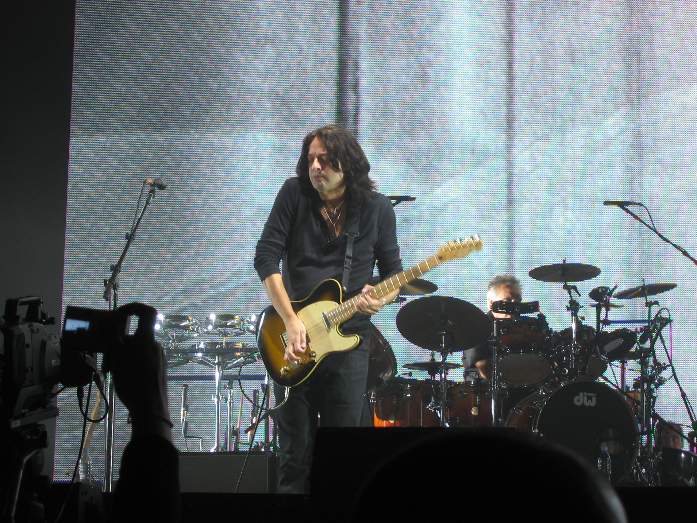 From the Roger Waters concert at Earls Court, London. May 11, 2007. One of three guitarists in the band: Dave Kilminster.